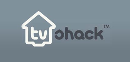 tvs logo